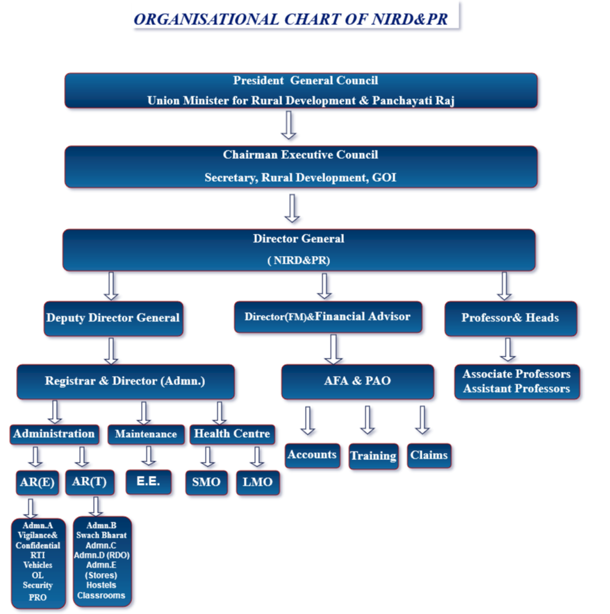 This chart provides the organization structure of NIRDPR